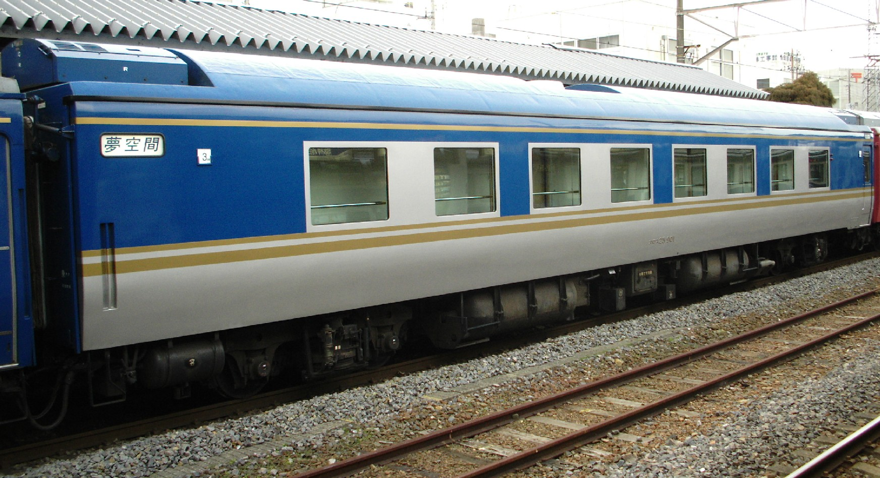 Yume Kūkan luxury sleeping car ORoNe 25 901 at Ishioka Station